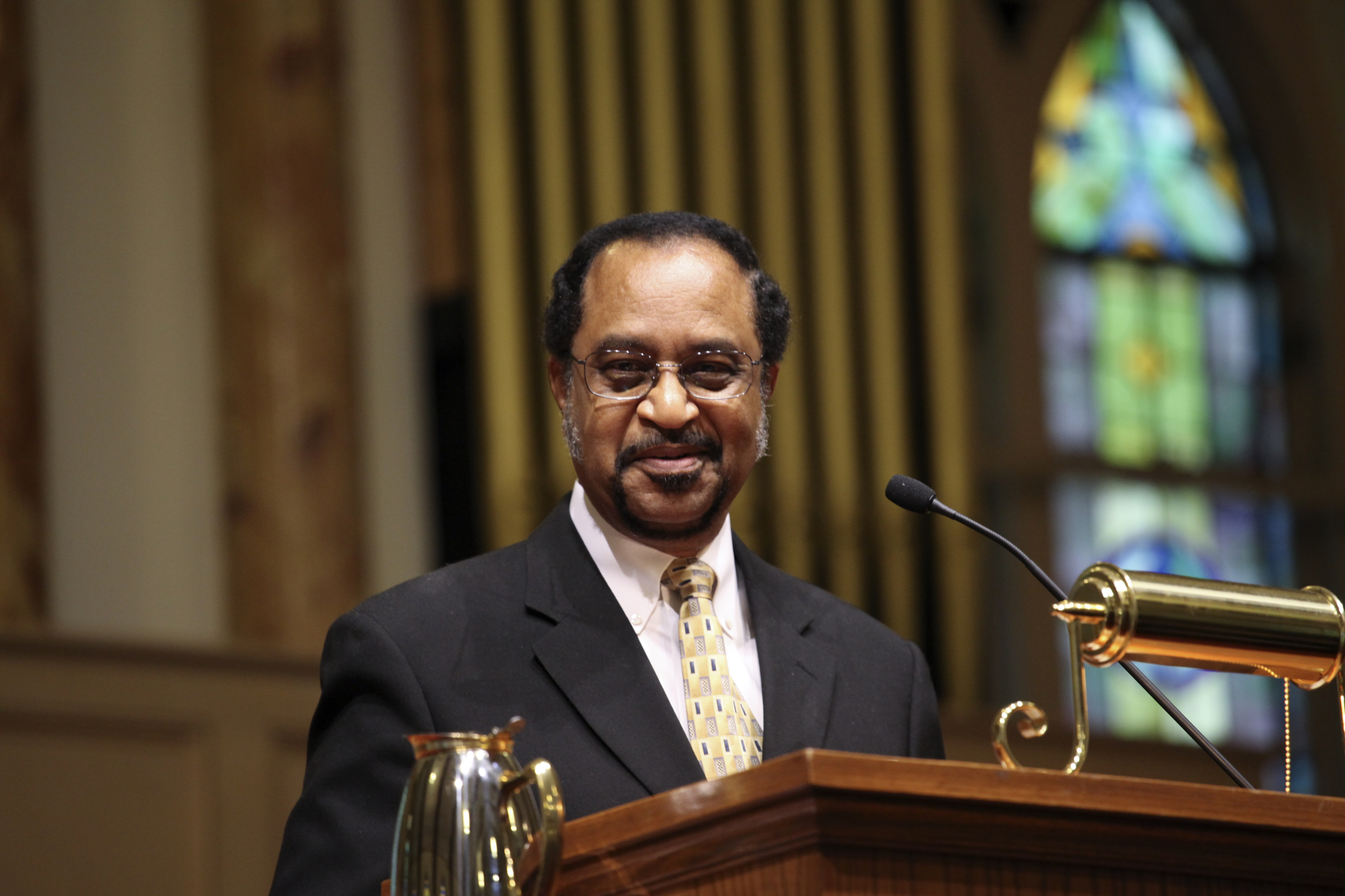 An image of DeWitt S. Williams speaking in 2011.